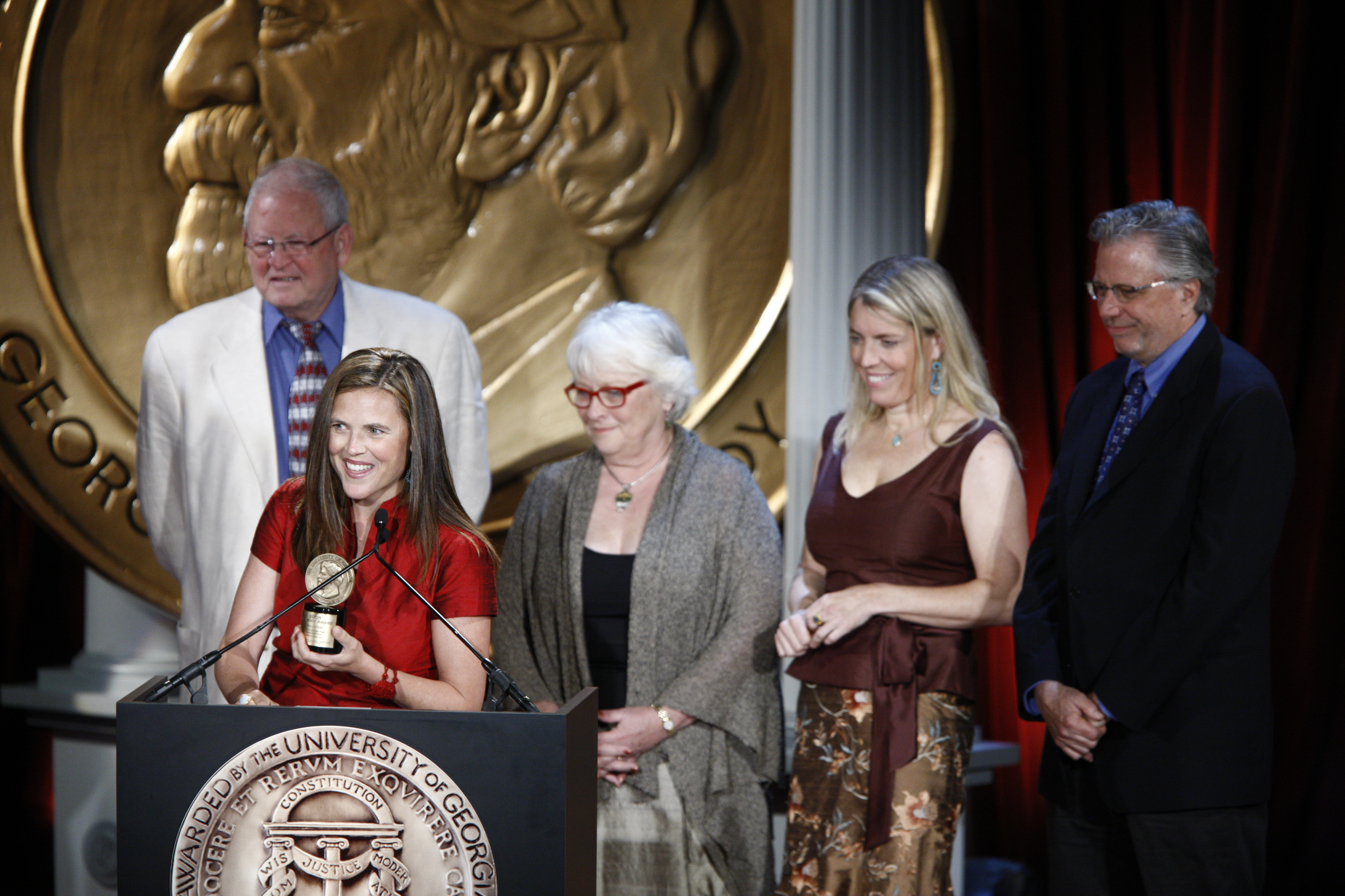 PHOTO CREDIT: ANDERS KRUSBERG / PEABODY AWARDS Paul Taylor, Irene Taylor Brodsky, Sally Taylor, Crofton Diack and Geof Diack 69th Annual Peabody Awards Luncheon Waldorf=Astoria Hotel New York, NY USA May 17, 2010